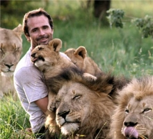 Kevin Richardson lies down with resting lions